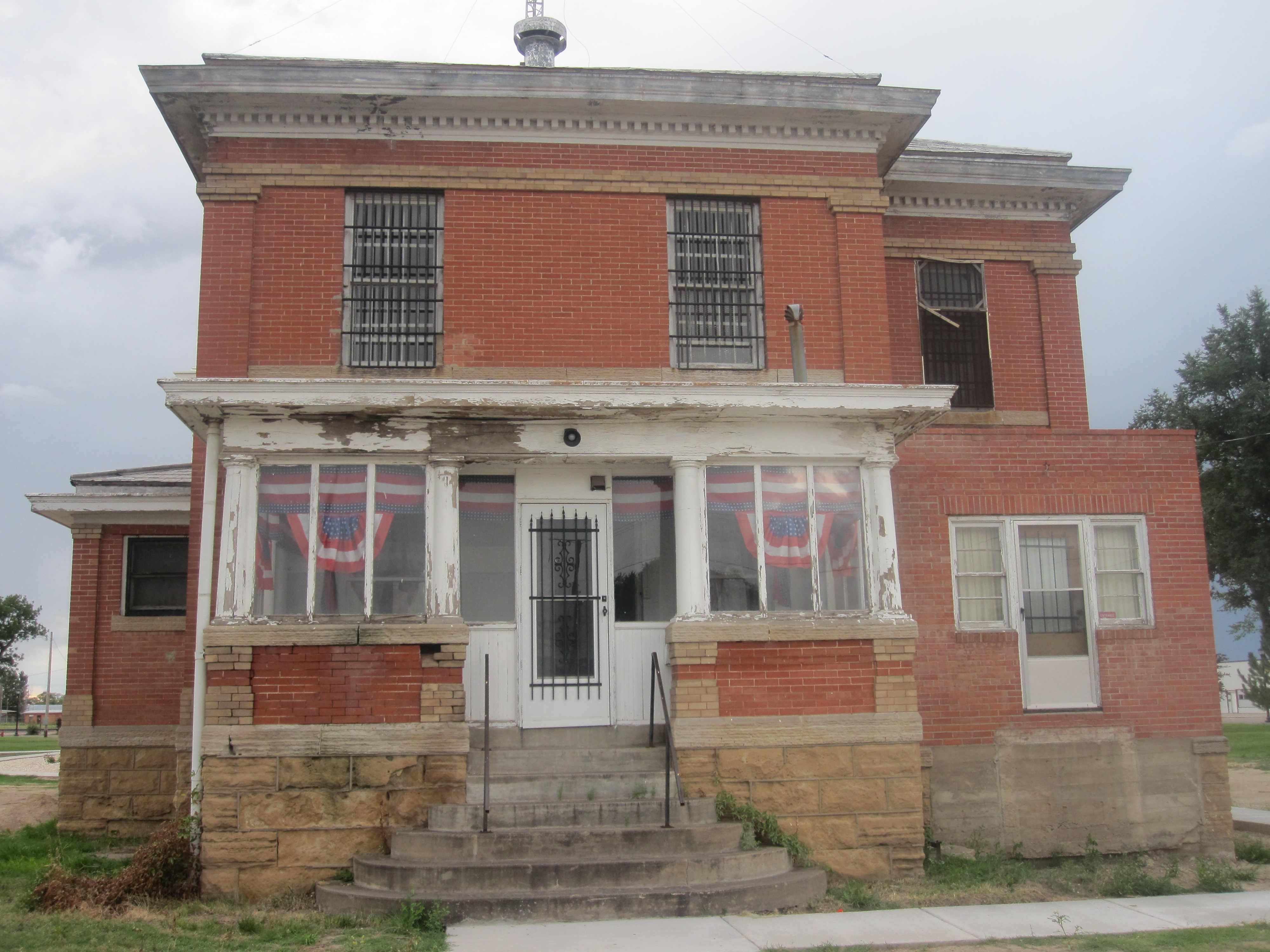 I took photo with Canon camera in Las Animas, CO.